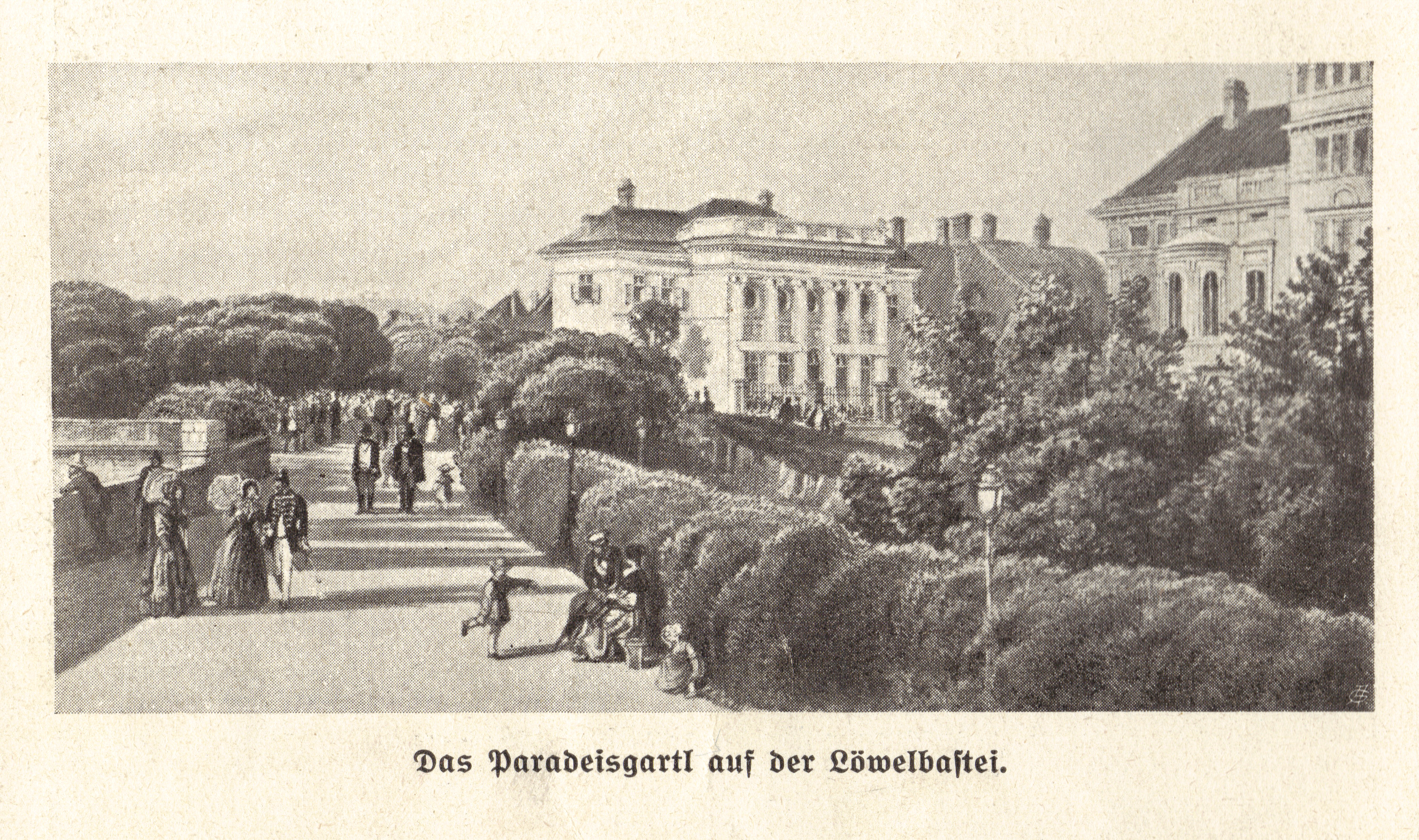 Public garden and coffee-house on Vienna's city walls